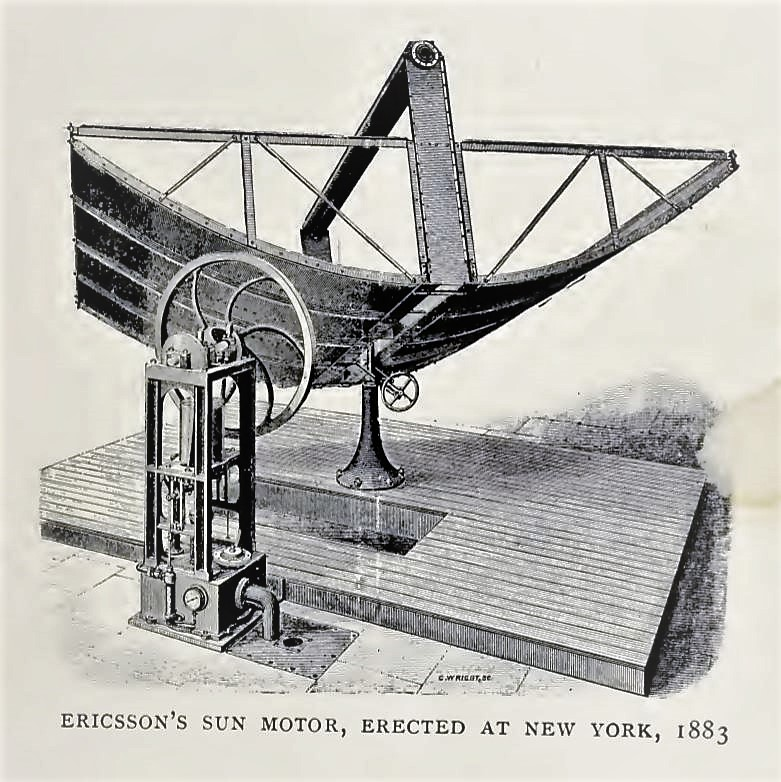 Ericsson sun motor of 1883